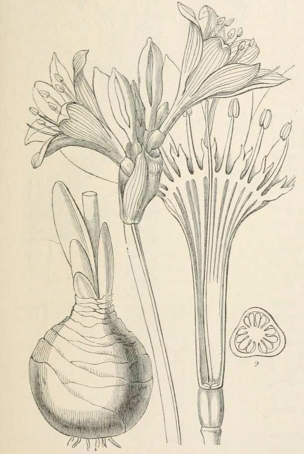 Pancratium maritimum by John Lindley, Vegetable kingdom 1846 p.155